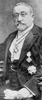 Josep Domènech i Estapà. Architect of the Catalan Modernism (Barcelona, 1858–1917).